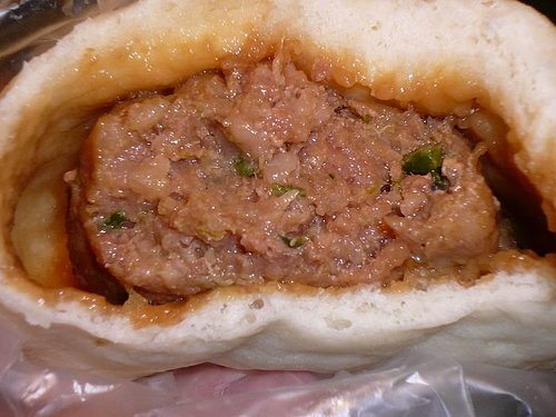 Fresh pork buns